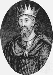 Æthelbald, King of England (858-860)